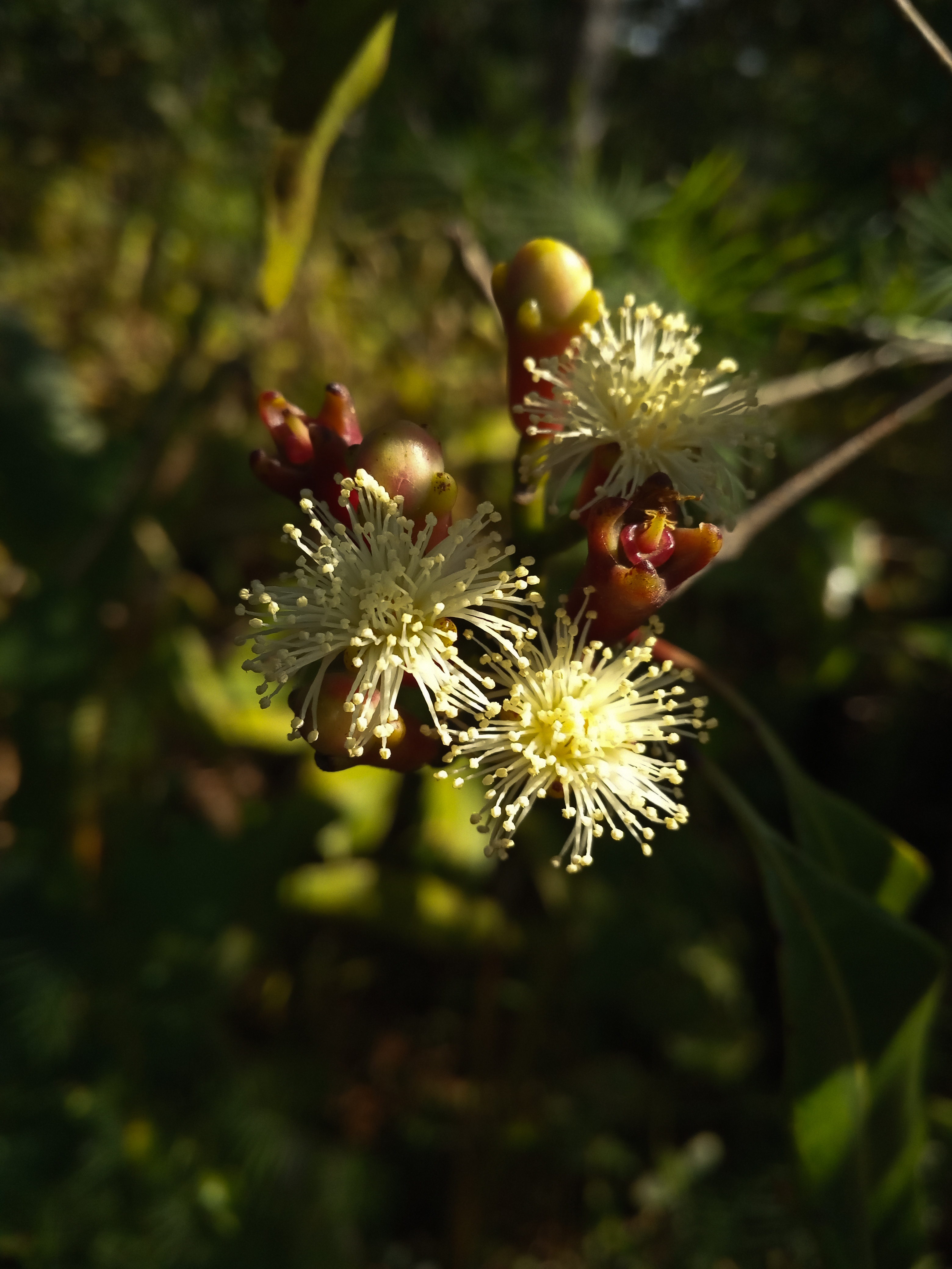 Cloves in Central Java, Indonesia